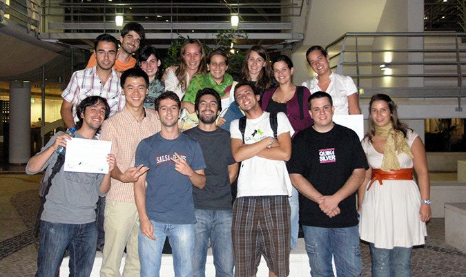 First GASTagus' volunteers in 2009